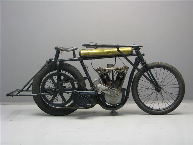 MAG Stayer motorcycle 1093 cc from 1924